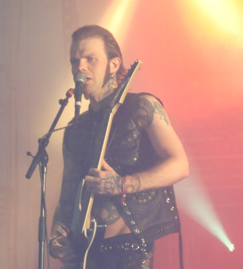 Terji Skibenæs - Hellfest 2013